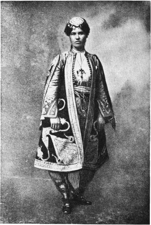 The long coat and full trousers stamp her as an inheritor of an Eastern culture. The veil has been discarded by many of the Moslem sections of the heterogeneous population of Macedonia, who, freed from the Turk, have grown accustomed to the sight of Christian macedonian women, and now unblushingly expose their features, delighting in the comfort and freedom which this new fashion entails